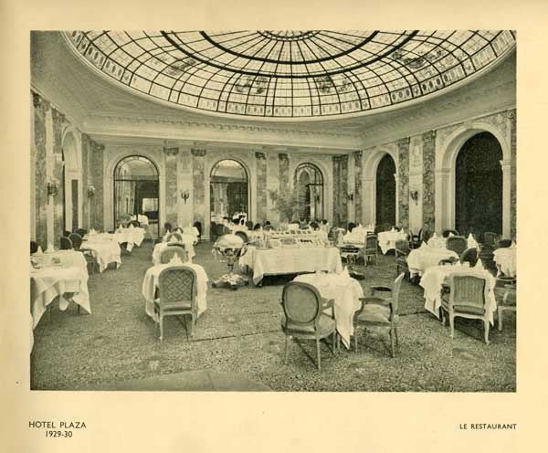 The Restaurant l'Estérel in the early thirties